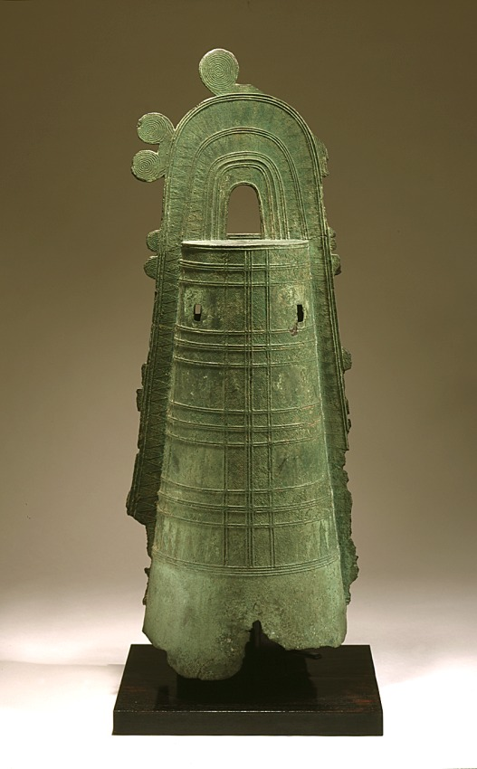 Japan, Yayoi period, circa 2nd century Sculpture Bronze Mr. and Mrs. Allan C. Balch Fund (M.58.9.3) Japanese Art Currently on public view: Pavilion for Japanese Art, floor 3